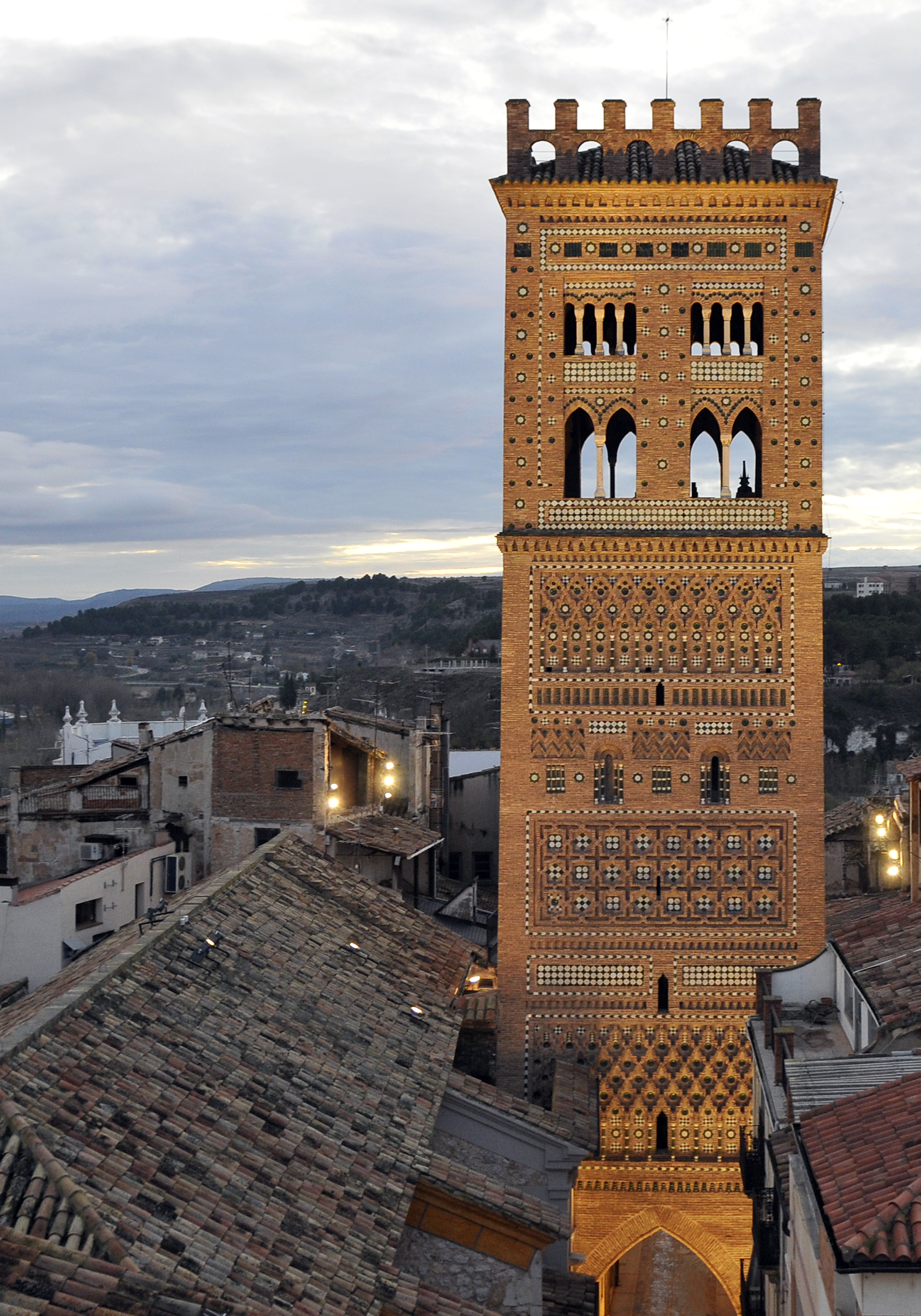 Tower of El Salvador. Siglo XIV. Teruel Patrimonio de la Humanidad. World Heritage by UNESCO